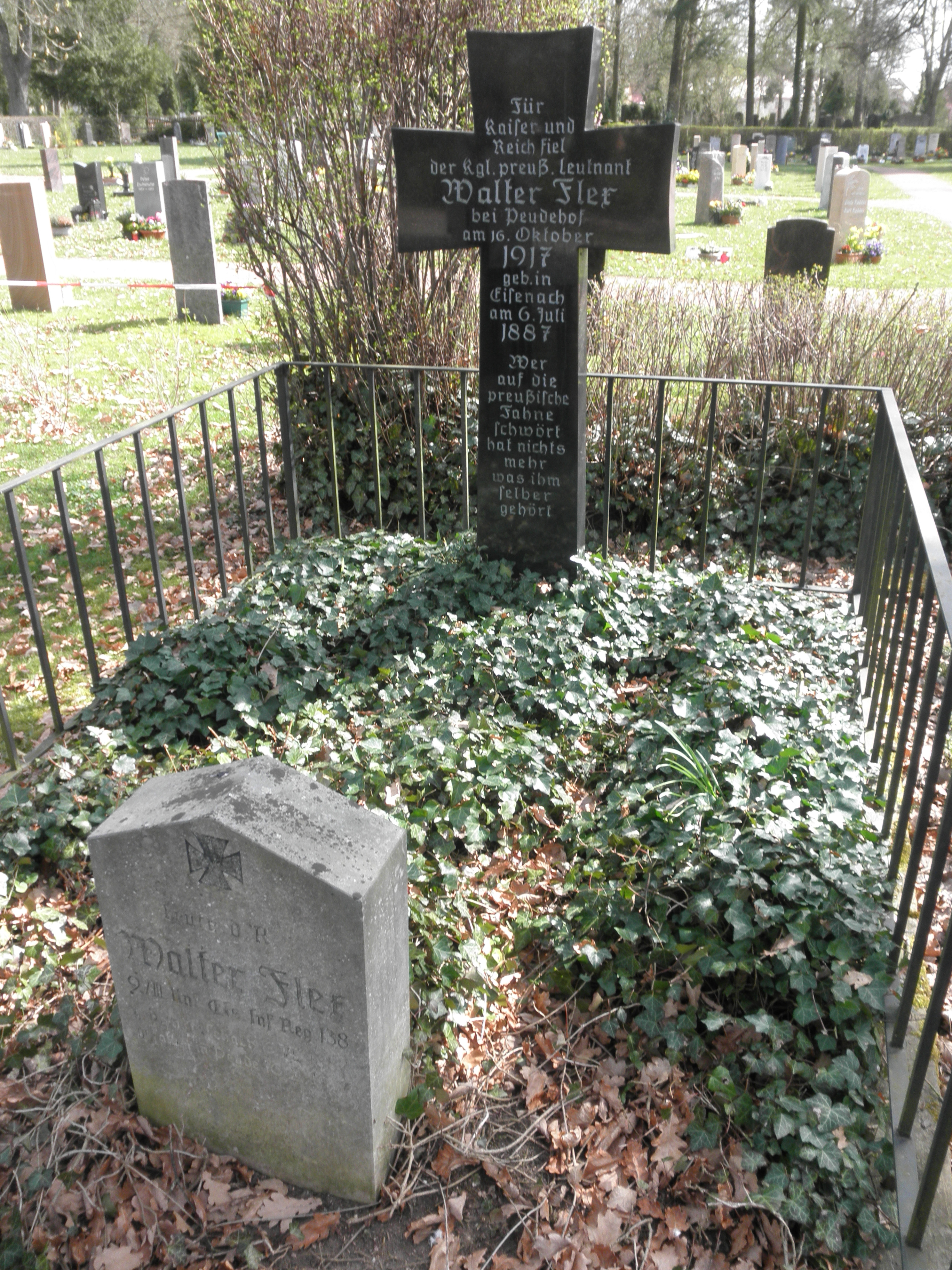 Symbolic Grave of Walter Flex in Eisenach in Thuringia